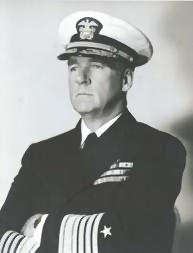 Admiral William H.P. Blandy from [1]. Photo of United States Navy personnel in course of official duties, not eligible for copyright